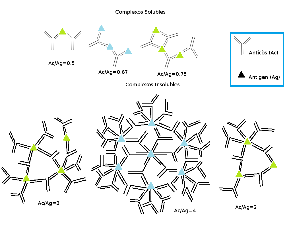 Immune Complex